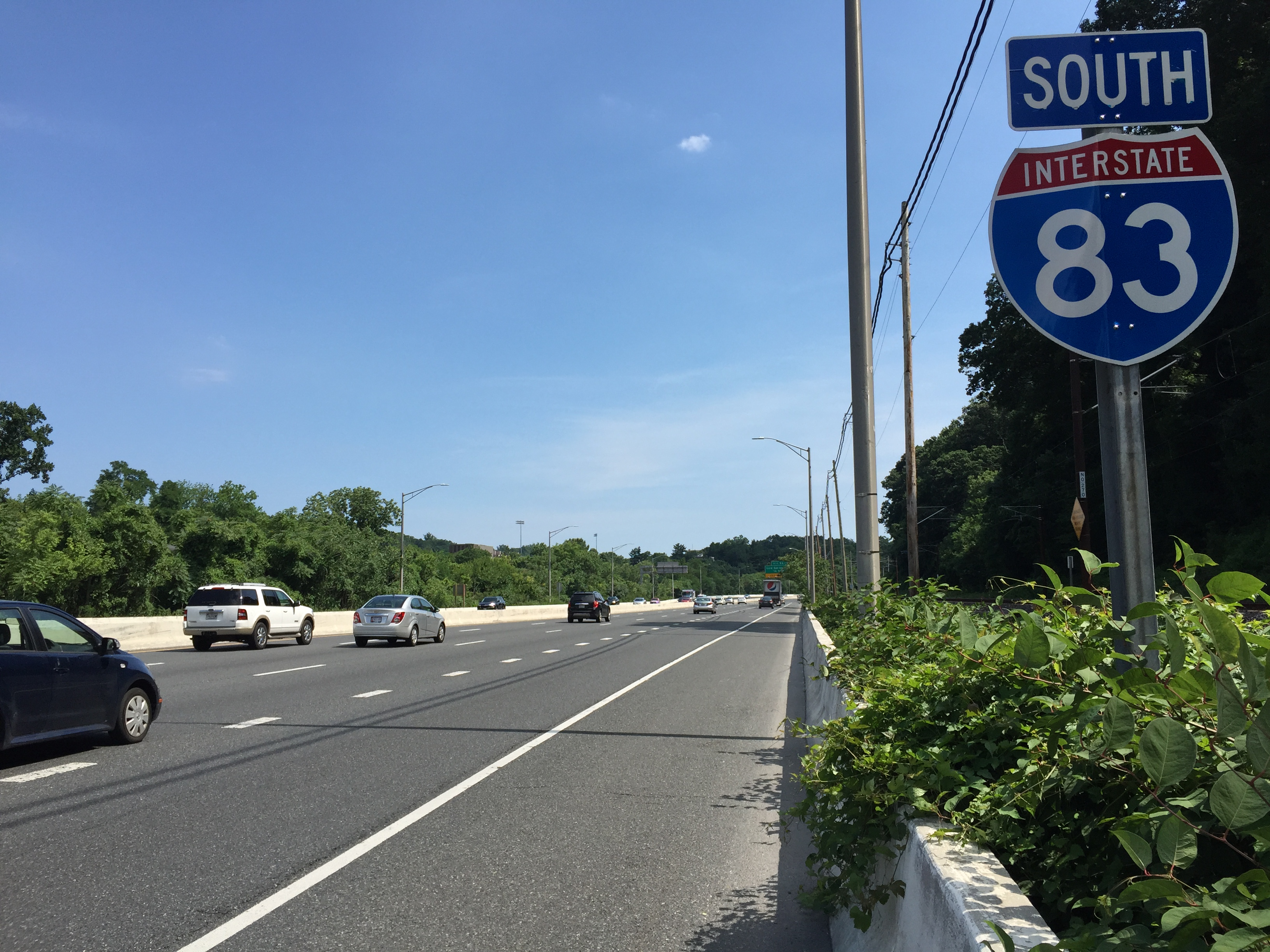 View south along Interstate 83 (Jones Falls Expressway) just south of Exit 10 (Northern Parkway) in Baltimore City, Baltimore